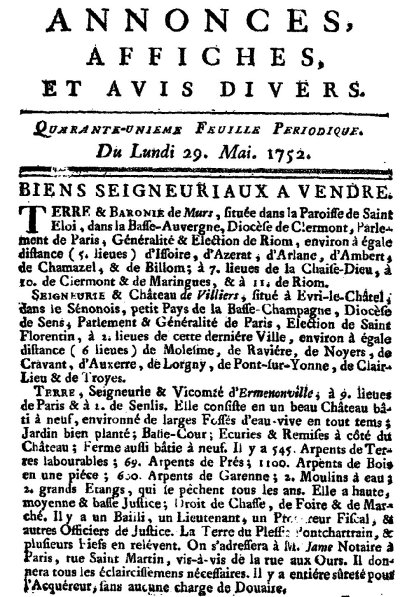 Copy from a French 1752 publication